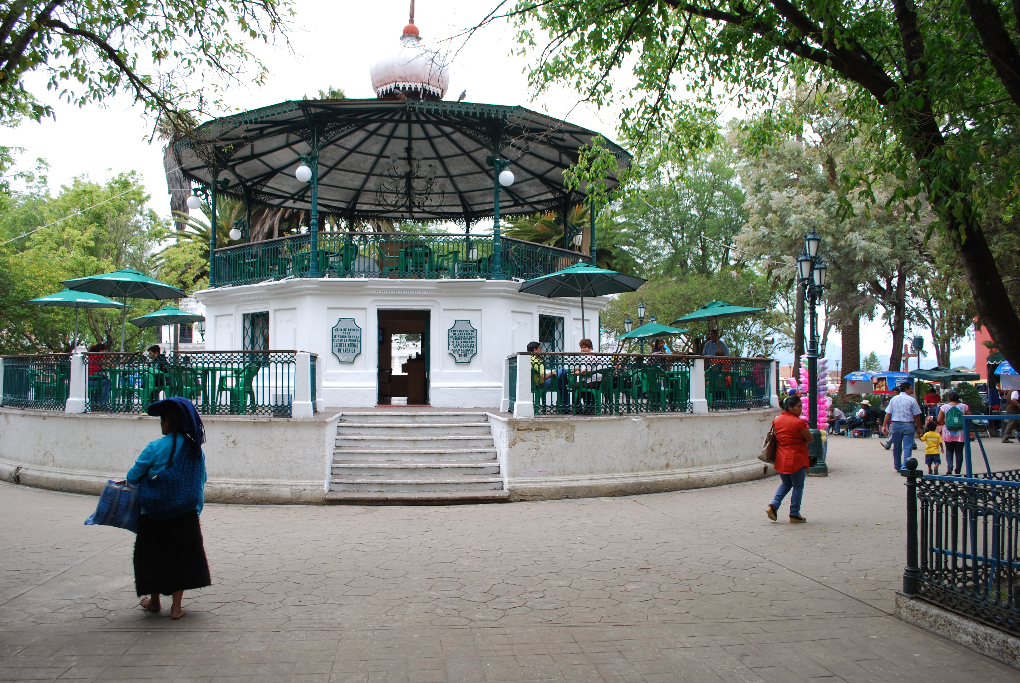 Kiosk in the main plaza of San Cristobal de las Casas, Chiapas, Mexico